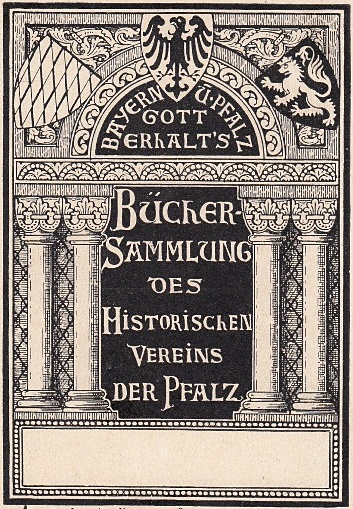 Ex Libris des Historischen Vereins der Pfalz, Speyer